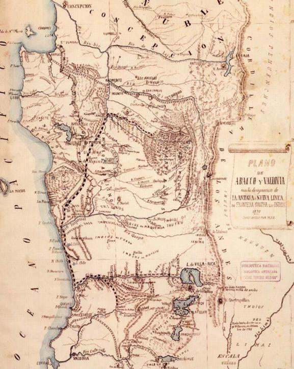 Change of Chile frontier border in the Occupation of the Araucanía - 1870